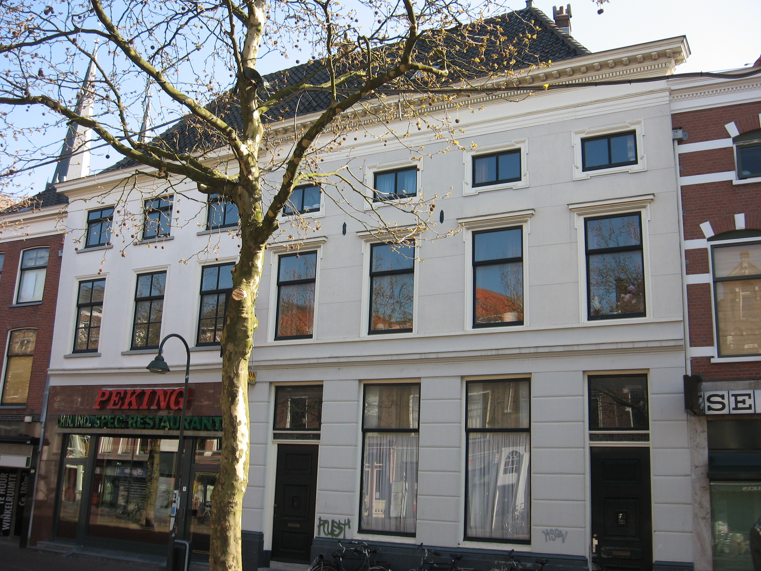 Rijksmonument, Delft - Brabantse Turfmarkt 76-78.jpg